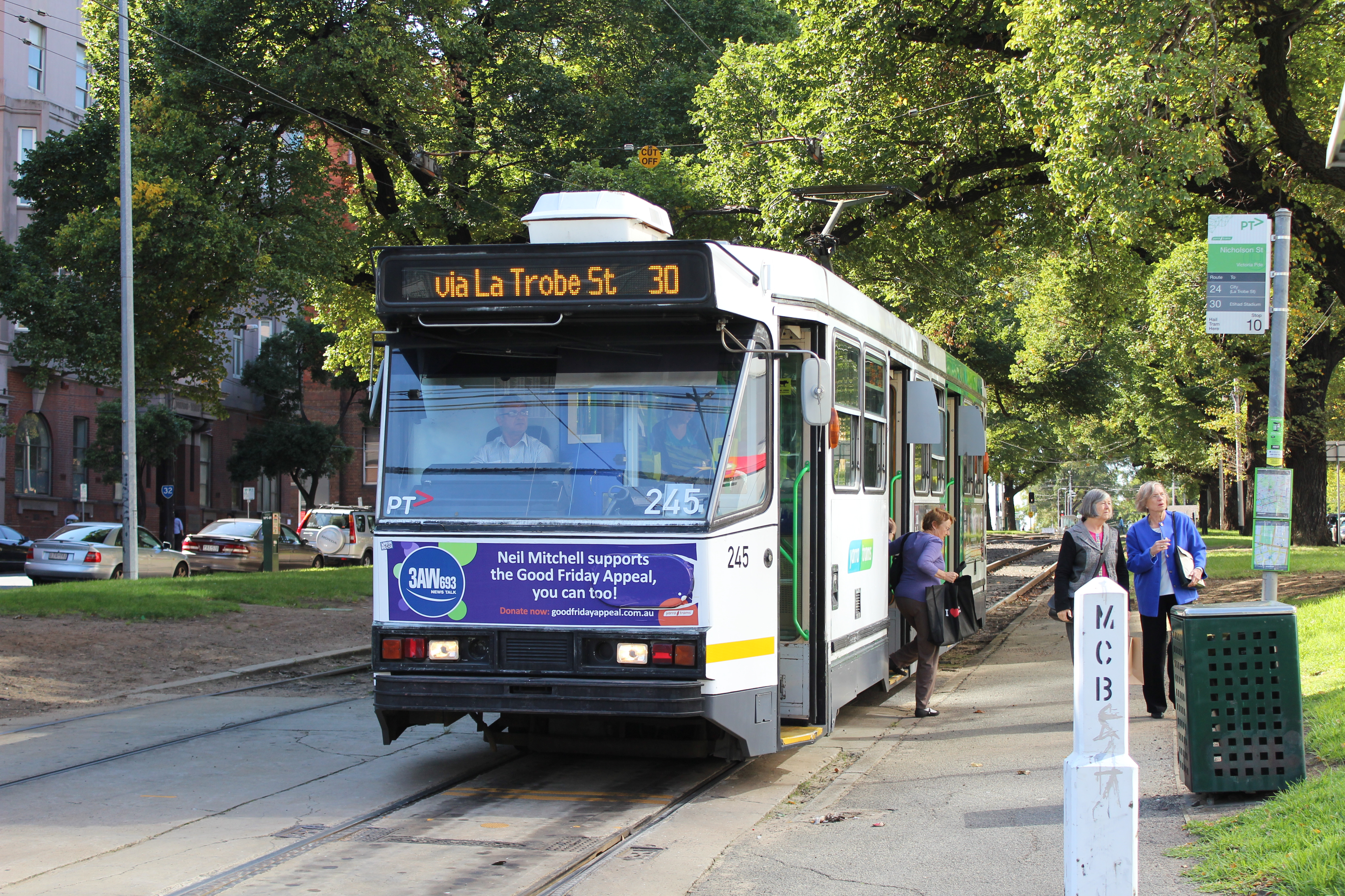 A1 245 in Victoria Parade operating a route 30 service to Docklands, 2013.